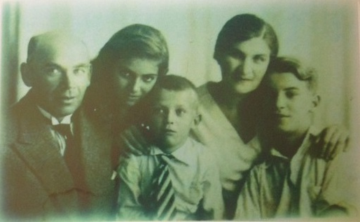 Zelig Axelrod and his family, 1931